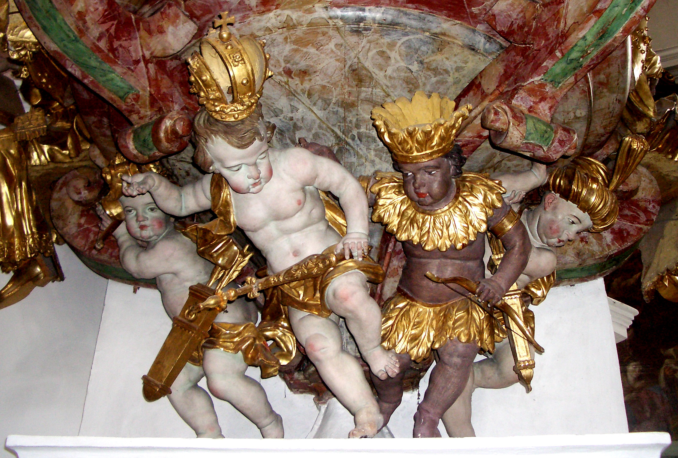 Klosterlechfeld, Germany: Wallfahrtskirche Maria Hilf, pulpit. The four puttos that hold the baroque puplit represent the four then known continents.